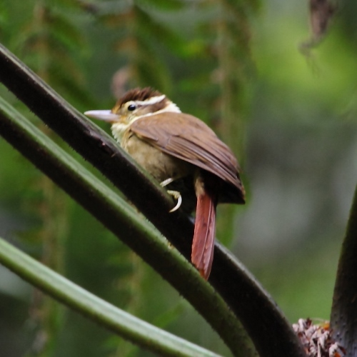 White-collared Foliage-gleaner at Intervales State Park - Ribeirão Grande - SP - Brazil